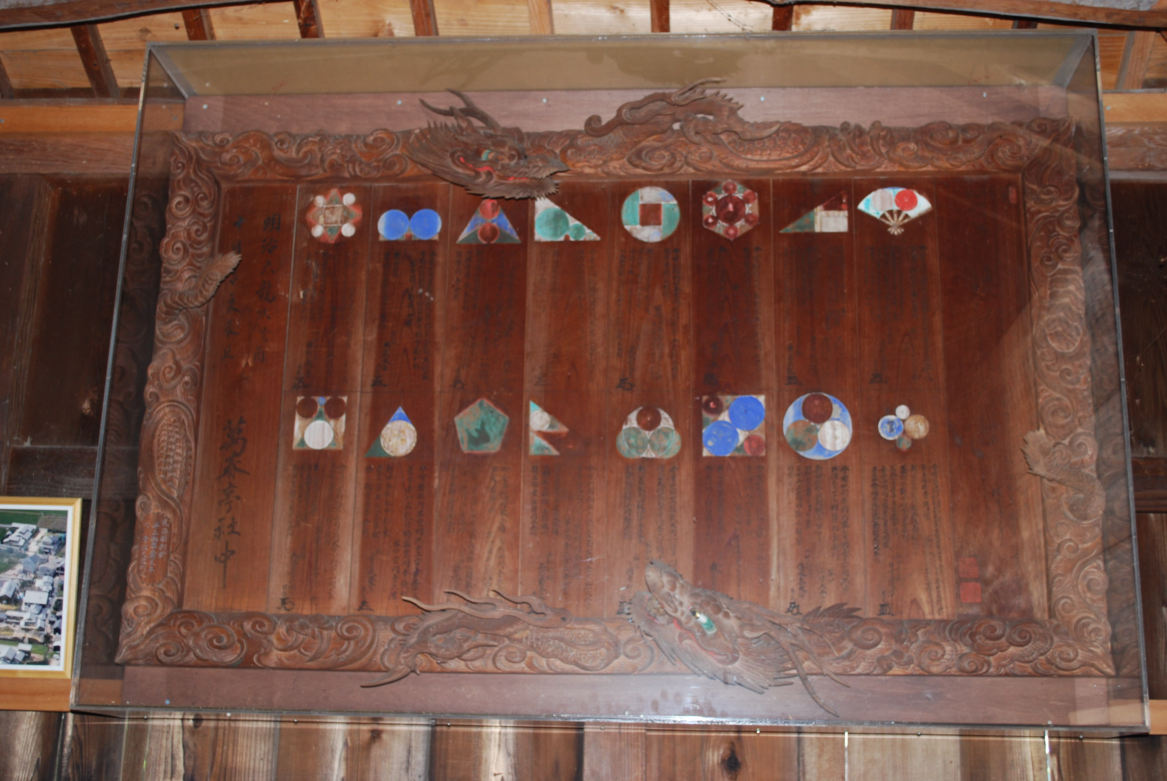 Formula board, Katayamahiko jinja